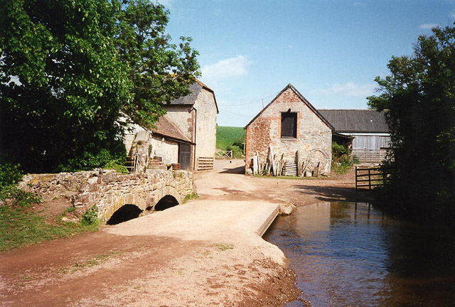 Kentsford Farm, Old Cleeve, Somerset. In the foreground a stone arched bridge and a concrete low water crossing and a ford all cross the Washford River. The farm buildings are in the parishes of Watchet and Williton.